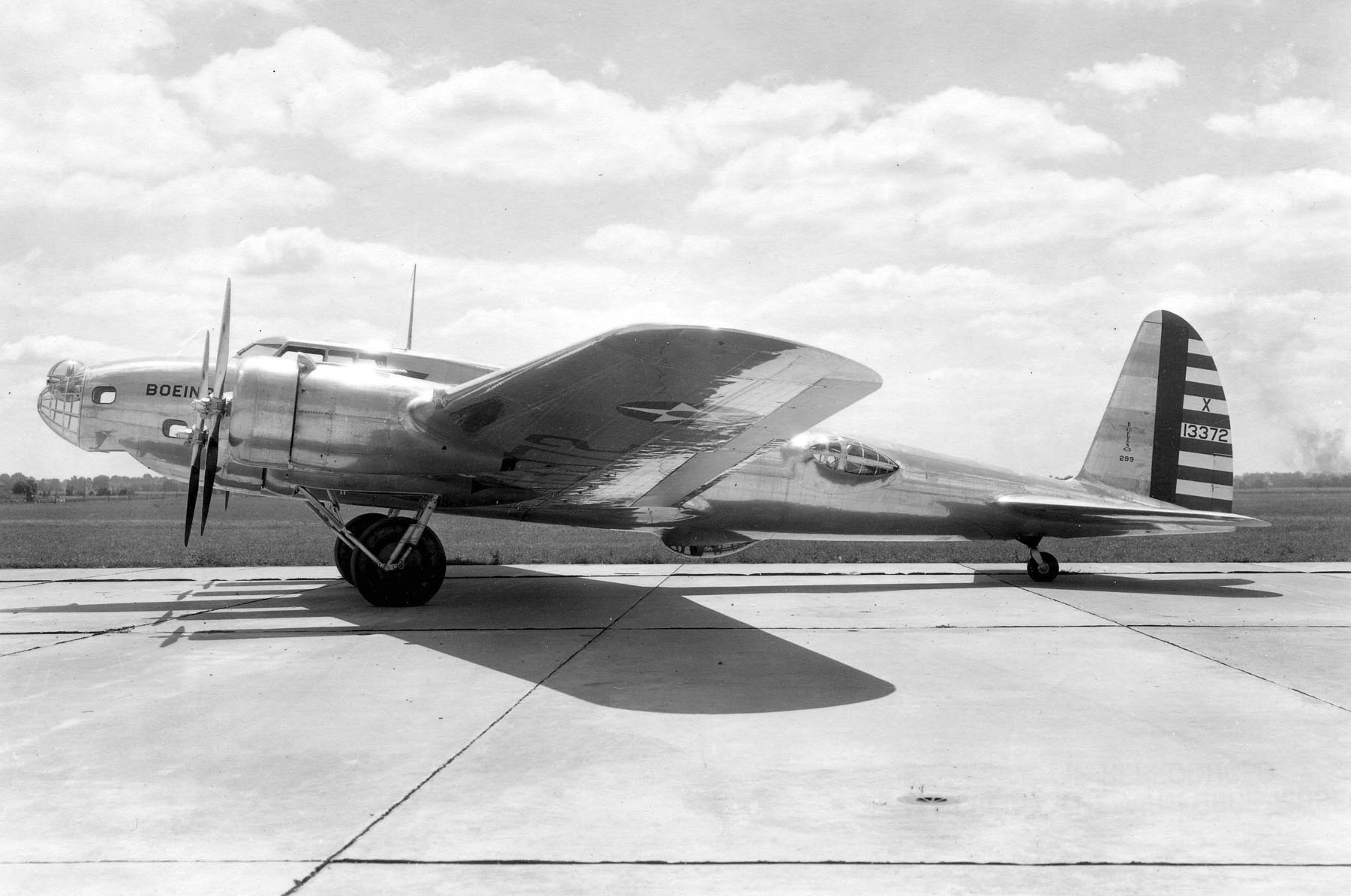 Boeing XB-17 (Model 299). (U.S. Air Force photo)